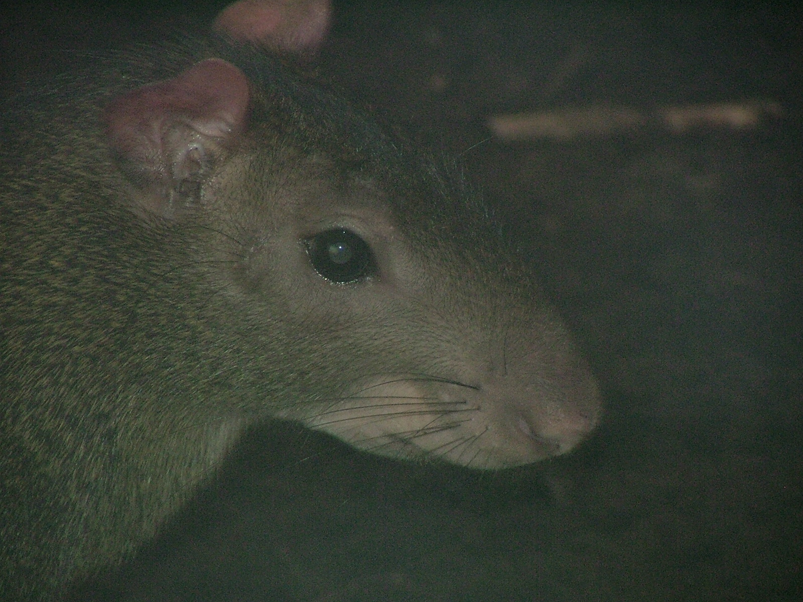 An Red-rumped Agouti (Dasyprocta leporina) at the Jerusalem Biblical Zoo.